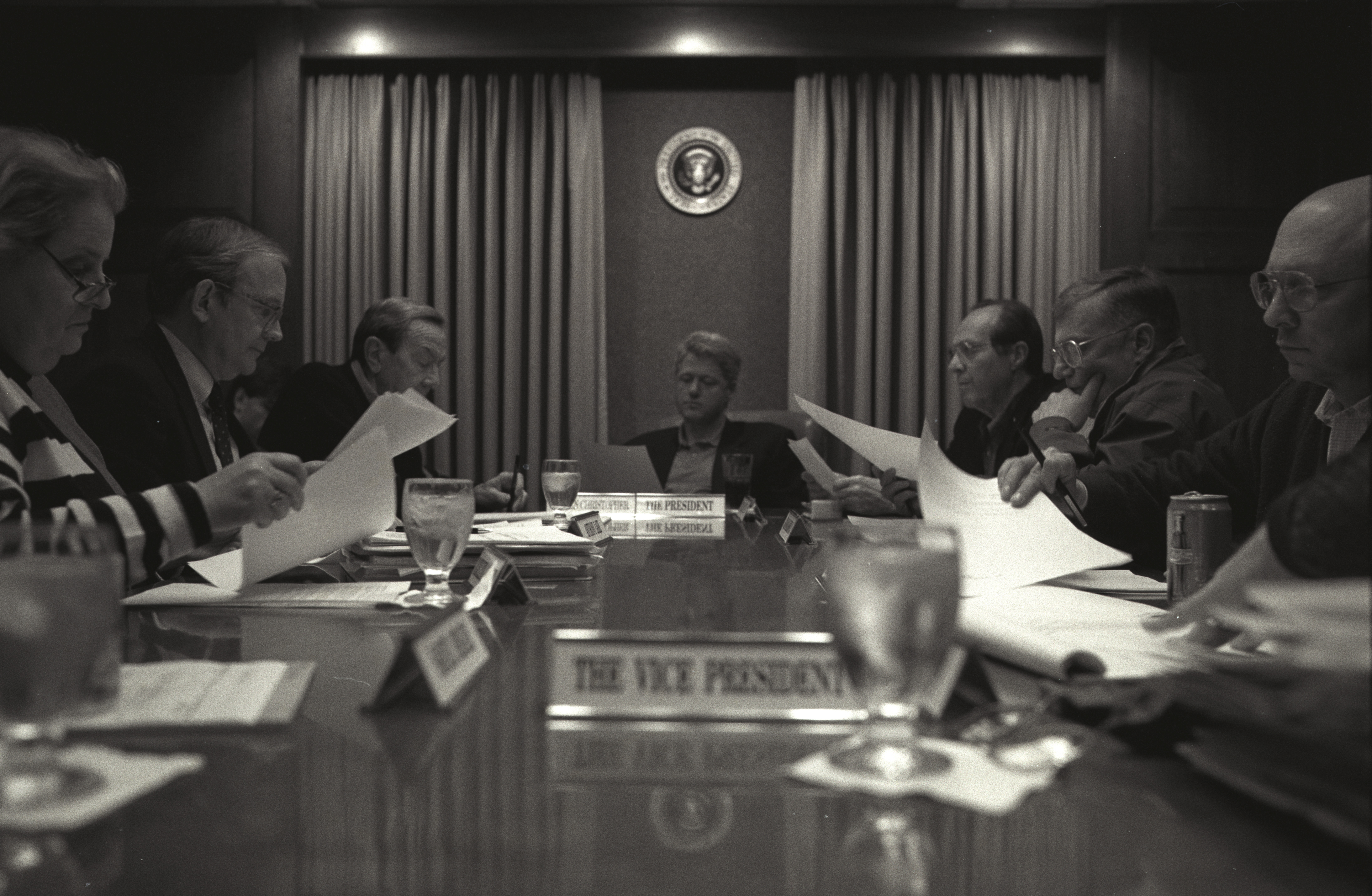 March 23, 1994: Bosnia meeting in the Situation Room with United Nations Ambassador Madeleine Albright, National Security Advisor Tony Lake, Secretary of State Warren Christopher, Secretary of Defense William Perry, Joint Chiefs of Staff Chairman General John Shalikashvili, and others. (Credit: William J. Clinton Presidential Library) Hosted by the Clinton Library and the Clinton Foundation, the document release was spearheaded by CIA’s Historical Review Program (HRP), which identifies, collects and produces historically relevant collections of declassified materials. The Bosnia collection—the youngest ever released in HRP’s 20-year existence—is available online at A video recording of the symposium is available at